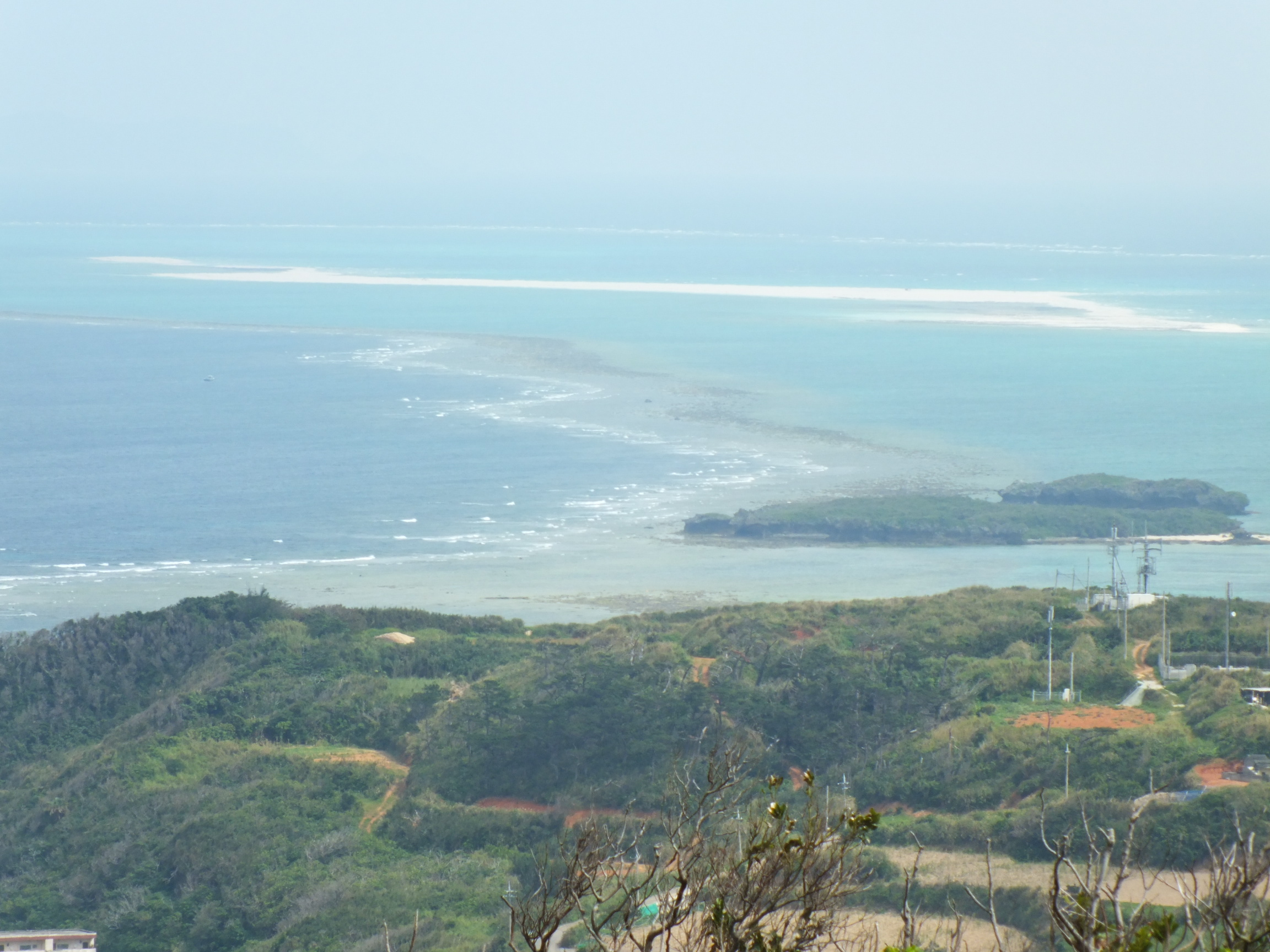 Hate-no-hama Beach seen from Tounnaha-jō, Kumejima, Okinawa Prefecture, Japan.